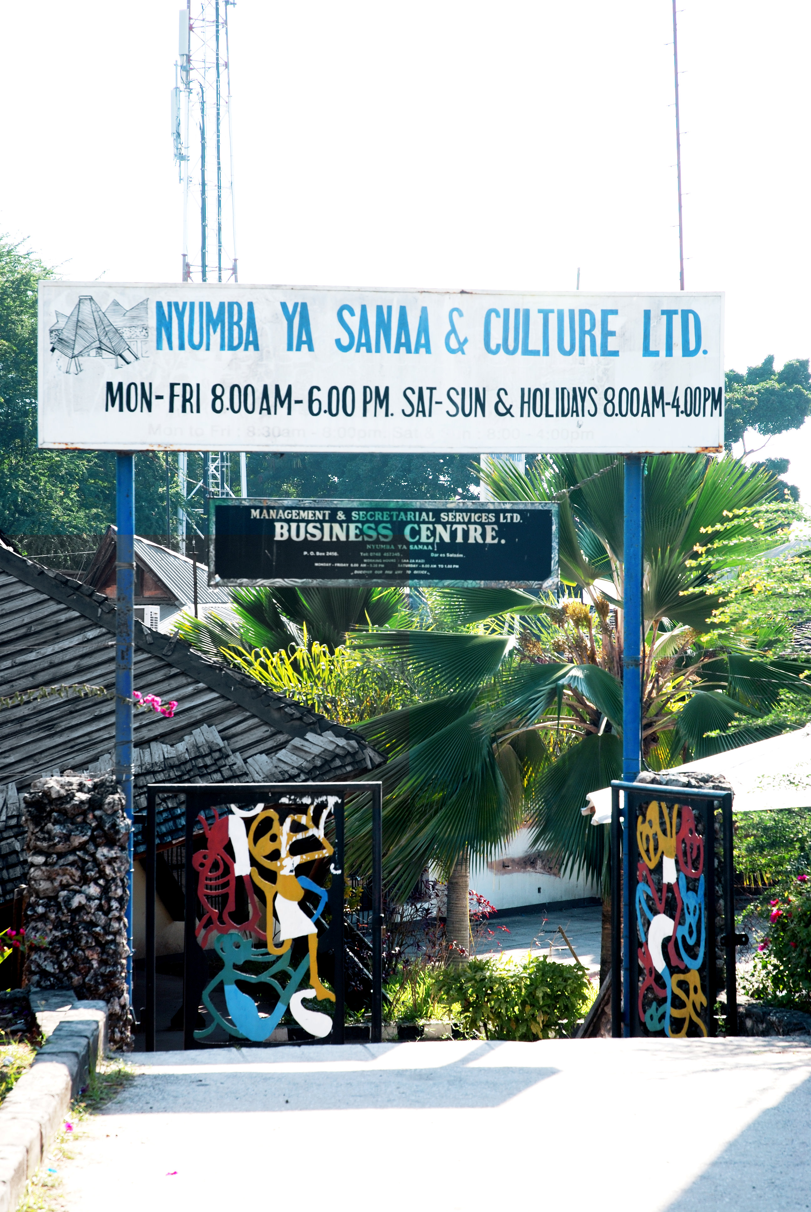 The Julius Nyerere Cultural Centre, aka Nyumba ya Sanaa ("House of Arts") in Dar es Salaam, Tanzania. The gate is a work by the famous tanzanian artist George Lilanga.